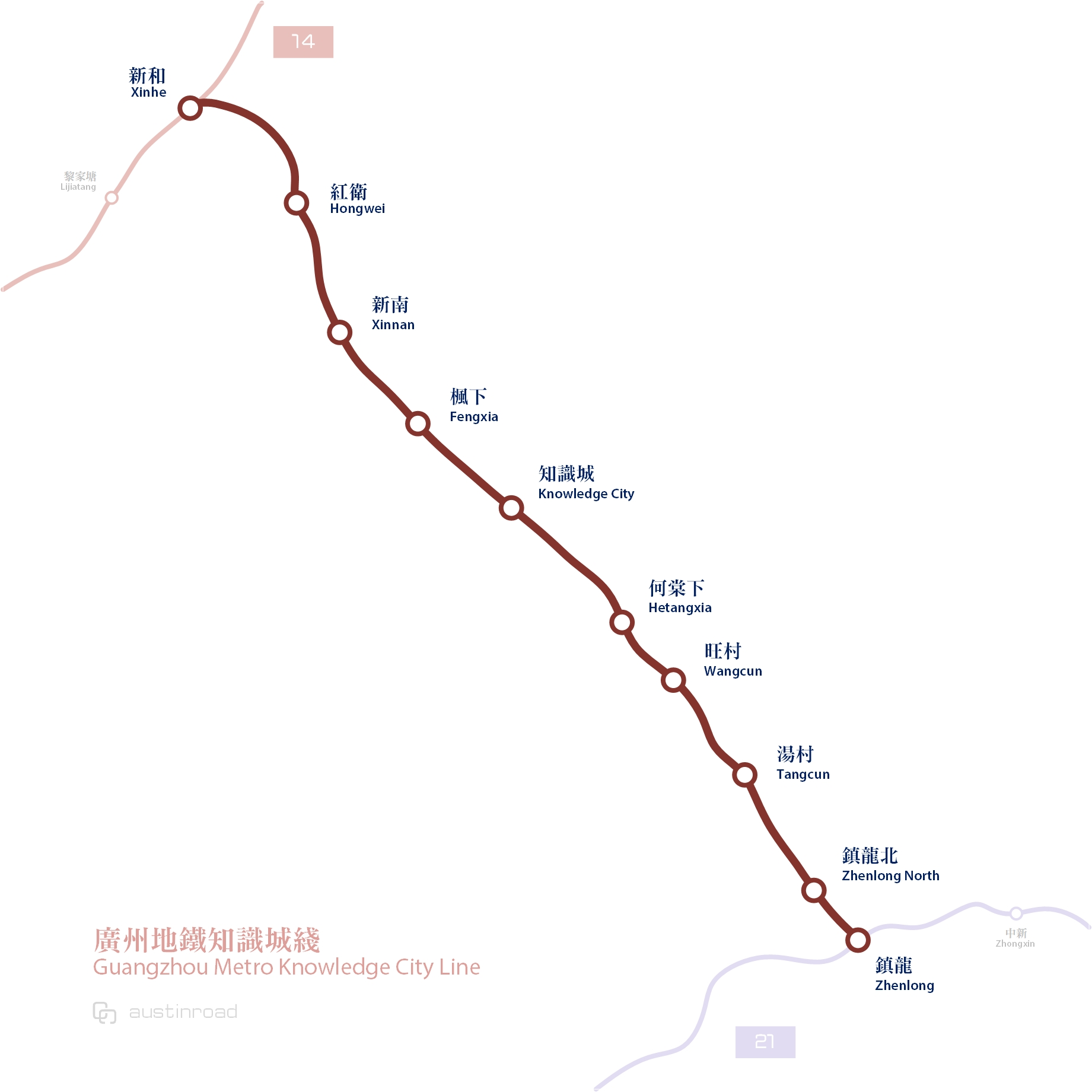 System Map of Guangzhou Metro Knowledge City Line 中文（中国大陆）: 广州地铁知识城线路线图